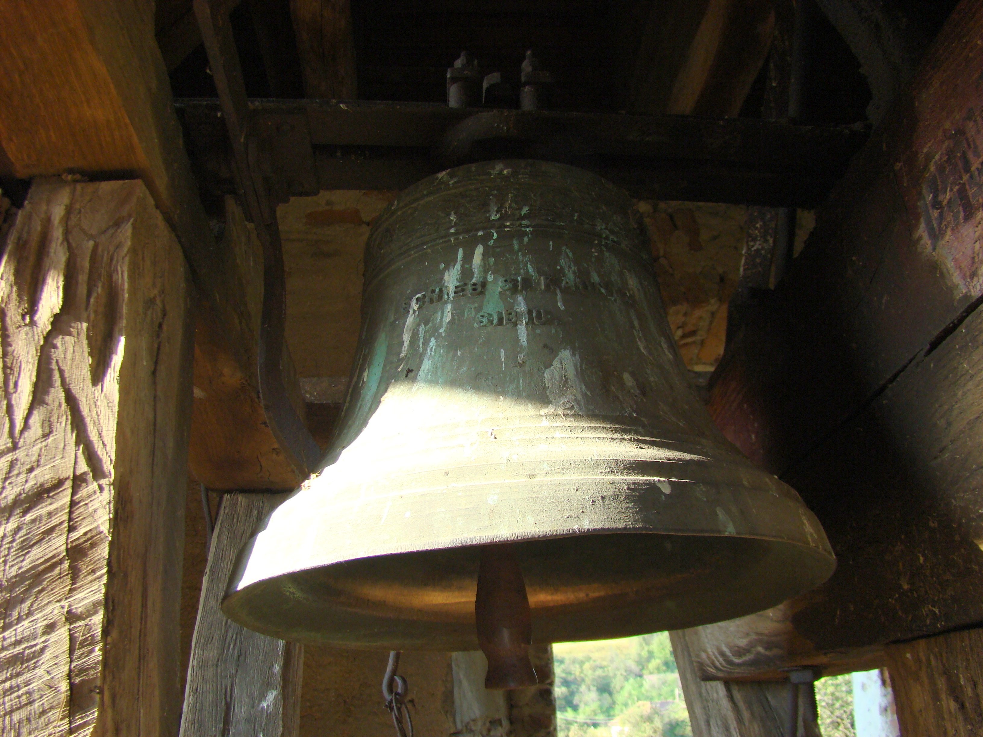 The old orthodox church „Dormition of the Theotokos” in Săsăuș, Sibiu county, Romania